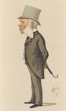 Caricature of George Frédéric Charles Staal, Baron de Staal. Caption read "The Russian Ambassador".